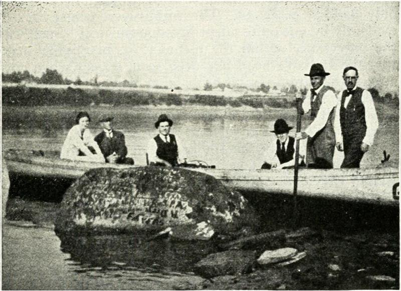 Indian Head Rock (IHR) was exposed in 1920 due to low river stage. Henry T Bannon studied, photographed and wrote about IHR. In this picture, Bannon (right) poses with IHR.